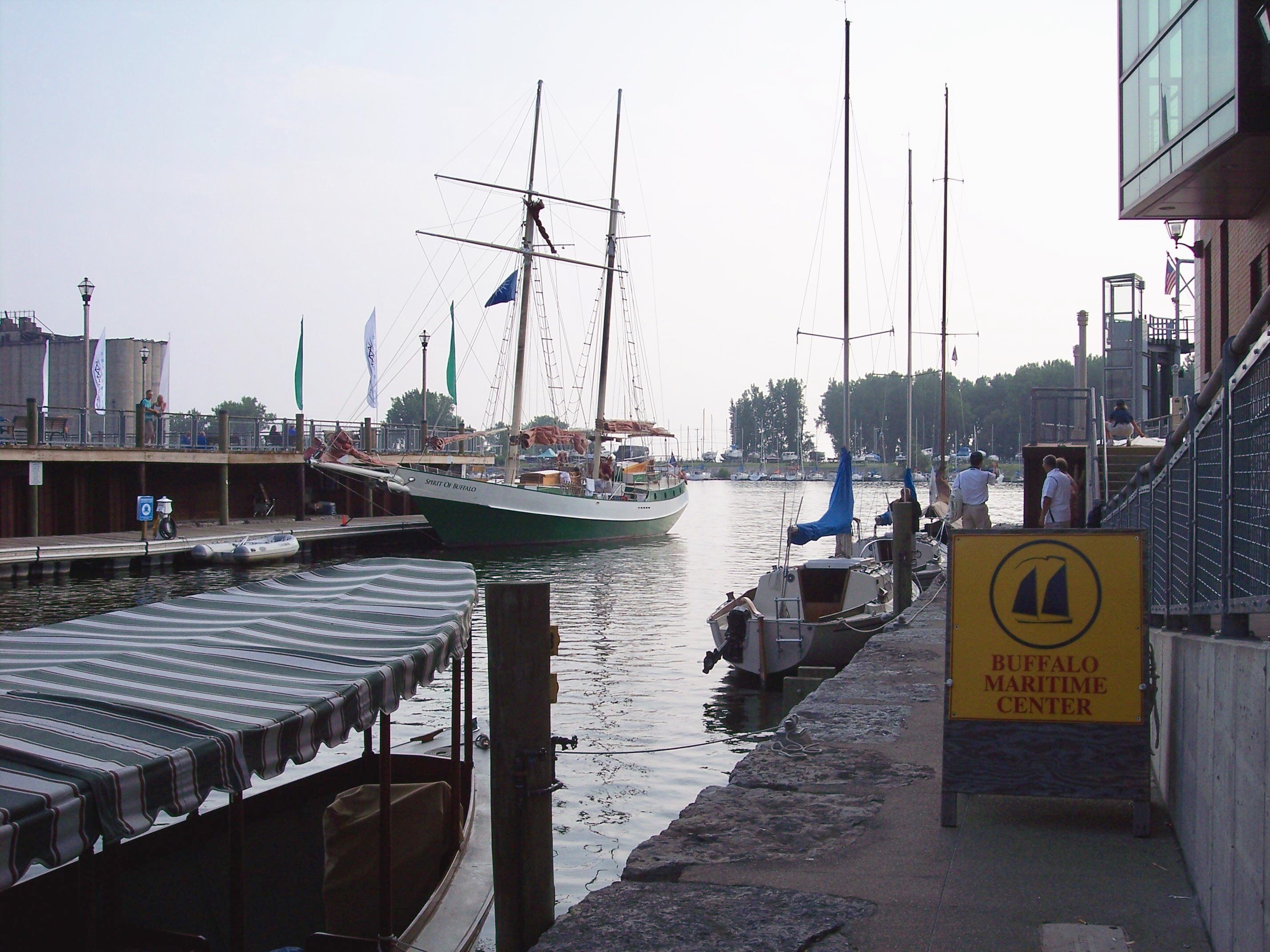 buffalo maritime center launch at canal side / commercial slip